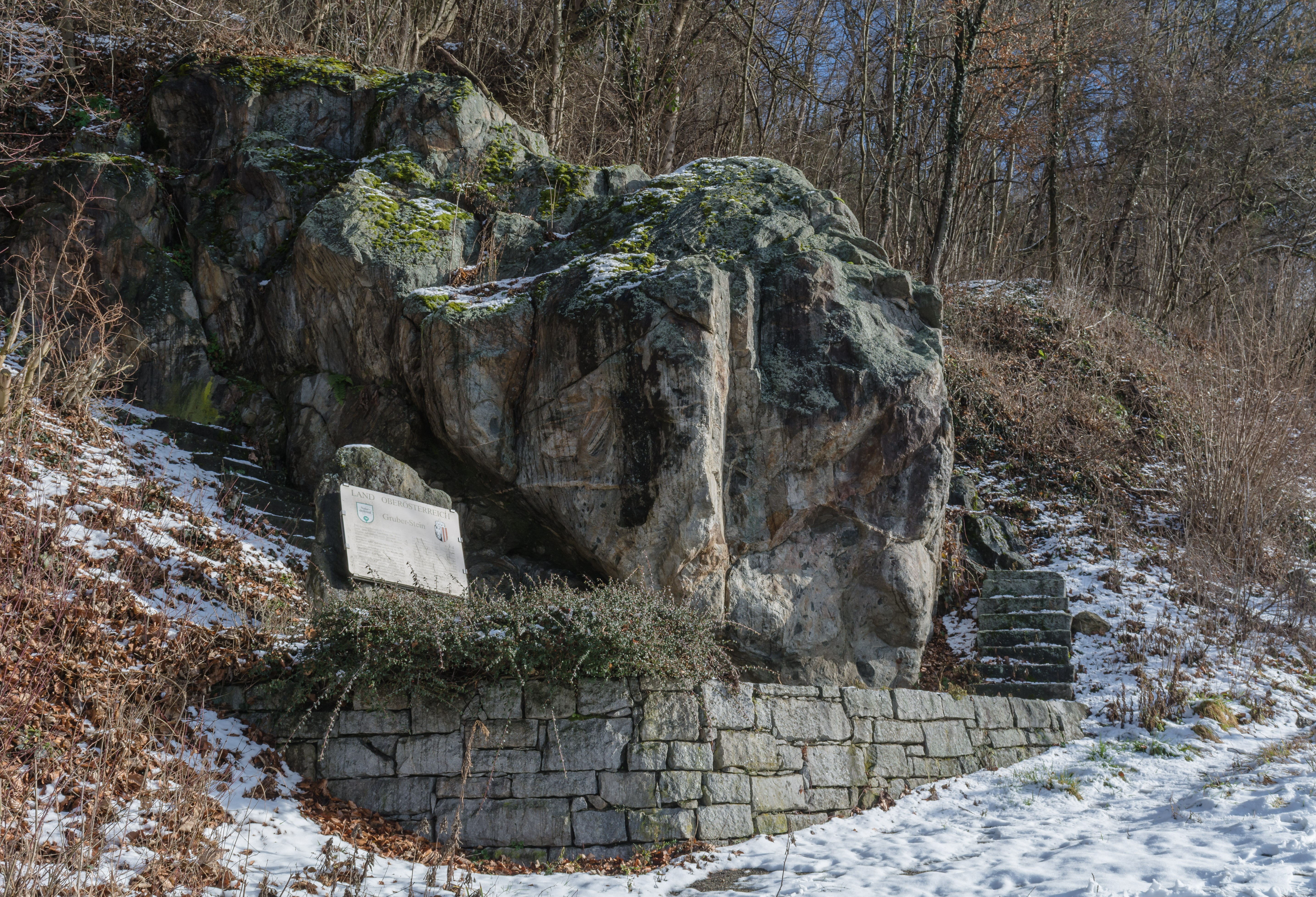 The „Dr. Gruberstein“ is a rock out of granite with enclaves of greenish blocks of slate and veins out of aplite. It is an example for the variscan orogeny in the northern parts of Austria in the Carboniferous period. This media shows the natural monument in Upper Austria with the ID nd093.